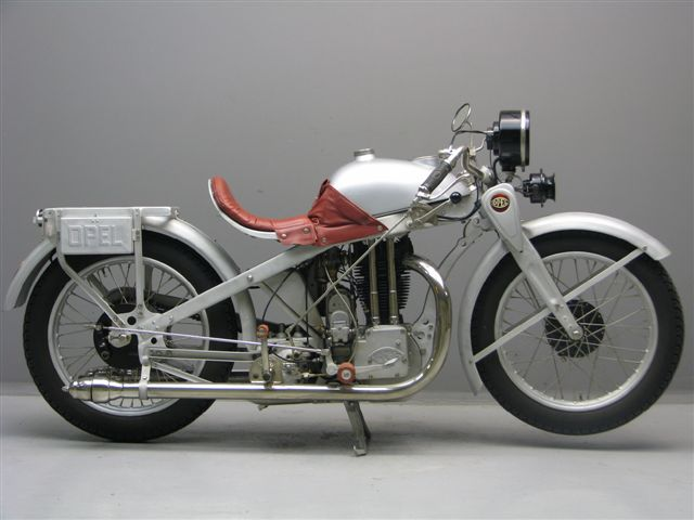 Opel 500 cc OHV Motoclub motorcycle from 1928